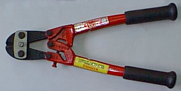 bolt cutter